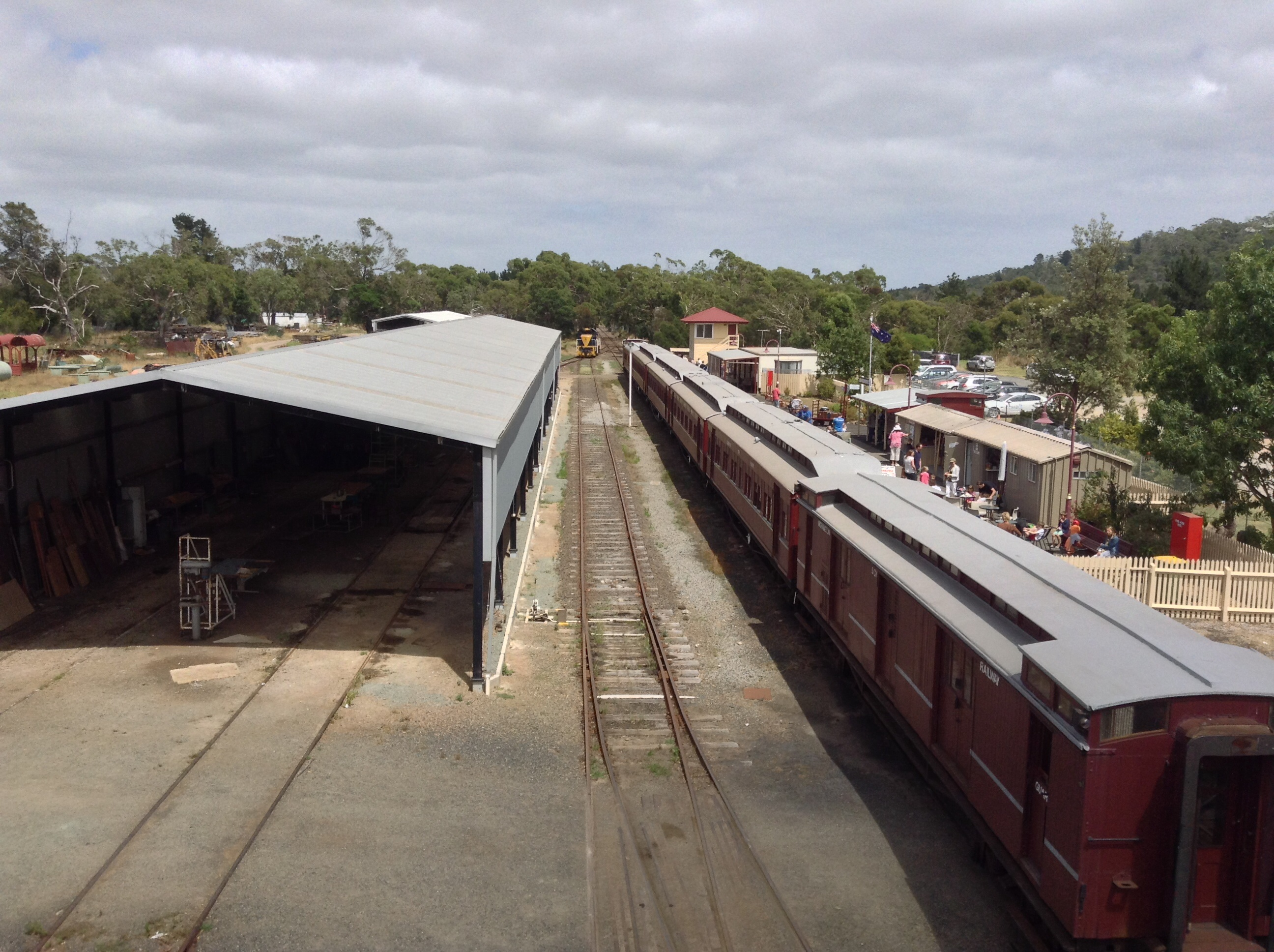 Moorooduc station, as viewed from the footbridge that leads to the maintenance dock.